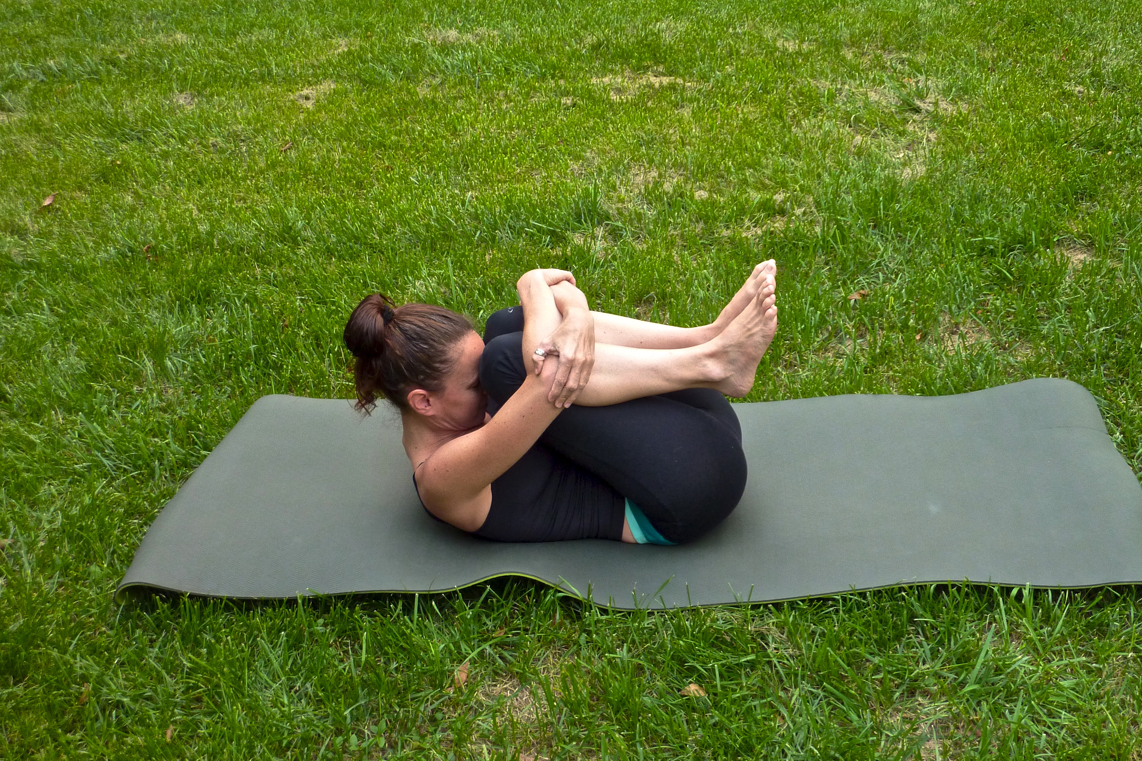 Hatha Yoga, Pawanmuktasana, Zhengzhou, China